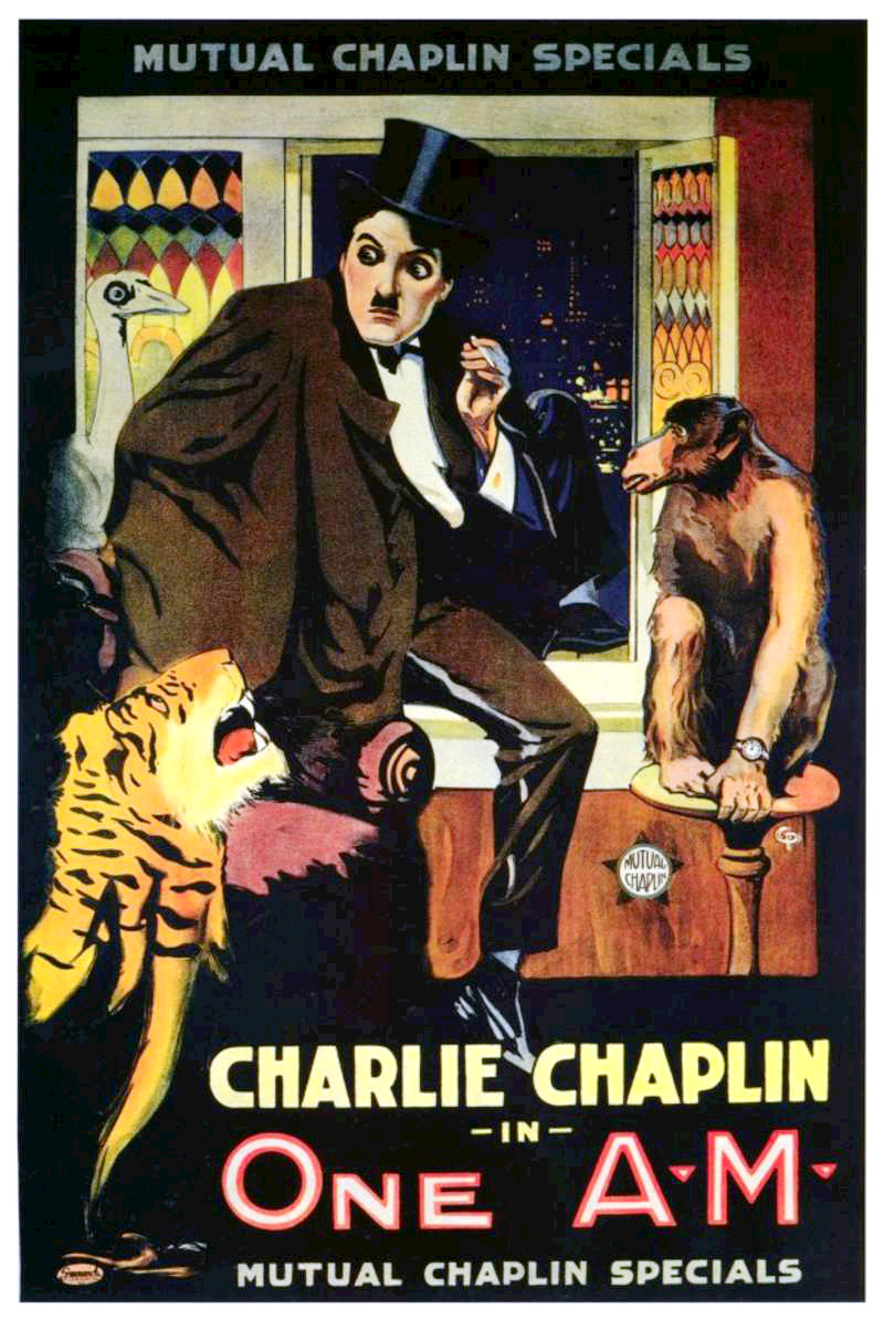 One A.M. (1916) poster